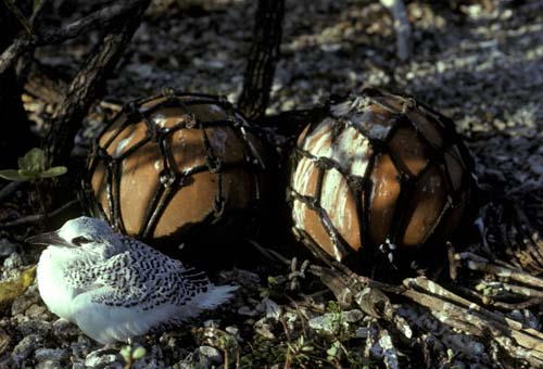 Non-flying, juvenile red-tailed tropic bird (Phaethon rubricauda) near fish floats on Bosun Bird Islet, Caroline Atoll, Kiribati.